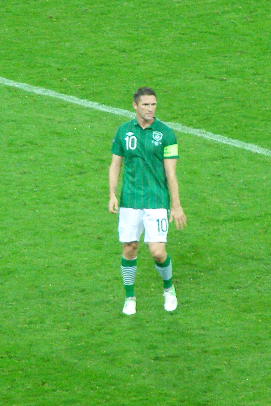 Gdańsk - PGE Arena - Euro 2012 - Group C match Spain - Rep. of Ireland - Robbie Keane